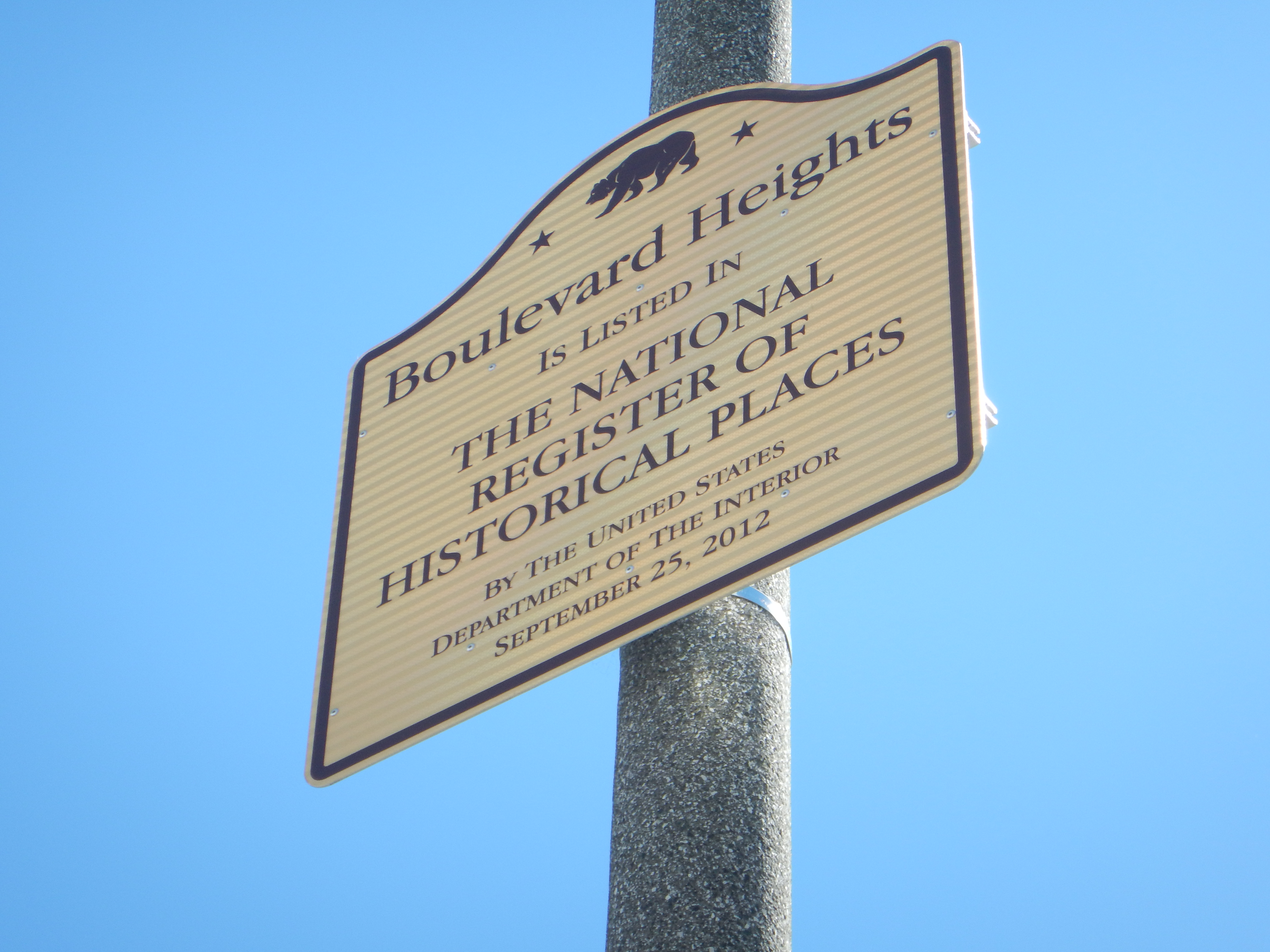 Boulevard Heights, a National Register District within WIlshire Park